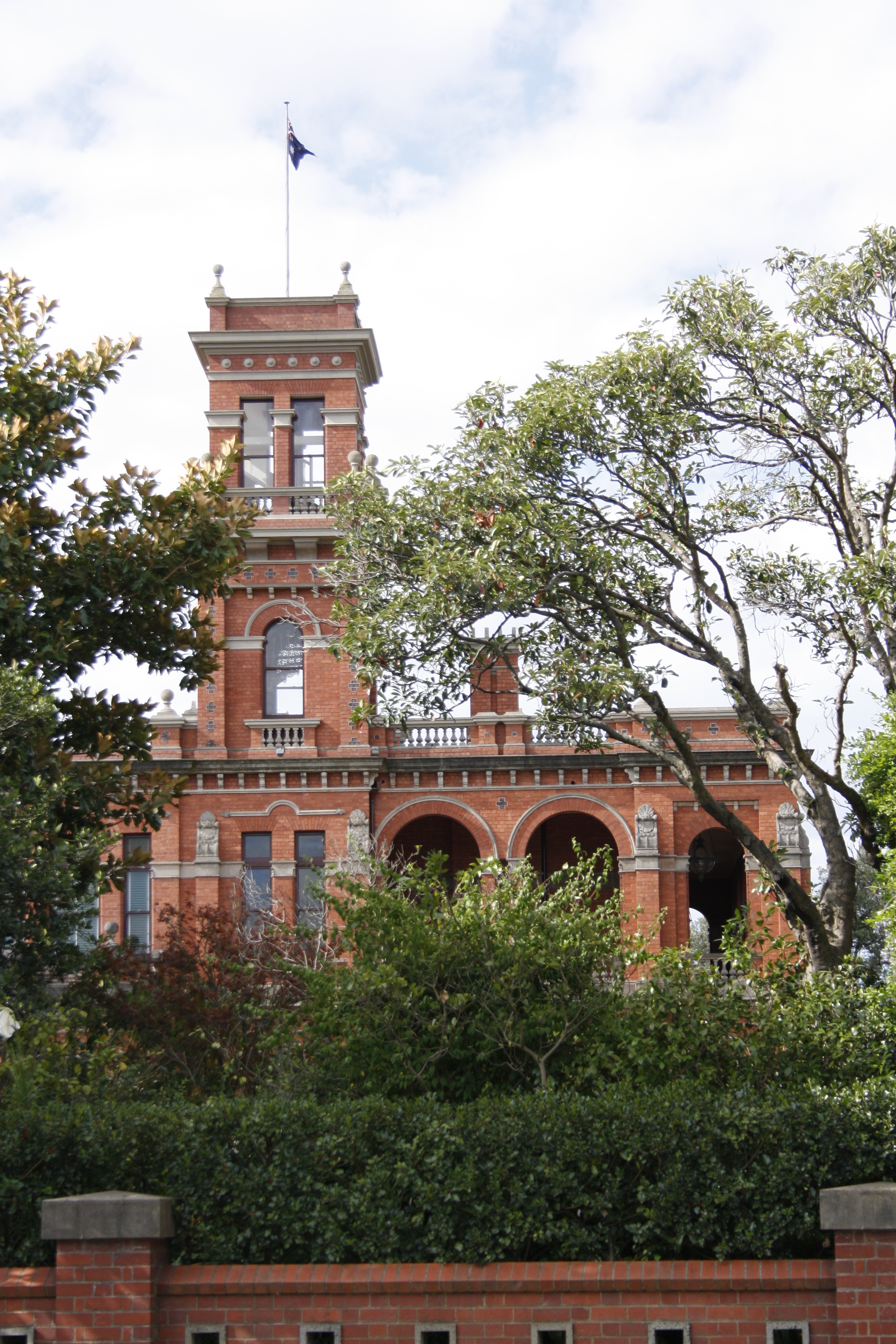 Raheen (estate) Melbourne. Tower.